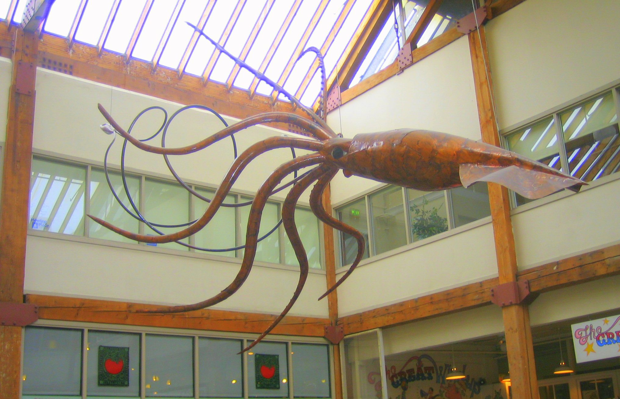 Giant Squid sculpture at Pike Place Market in Seattle, USA by Pat Wickline